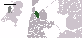 Locator map of Dutch municipalities in Noord-Holland (LocatieAnnaPaulowna.png)